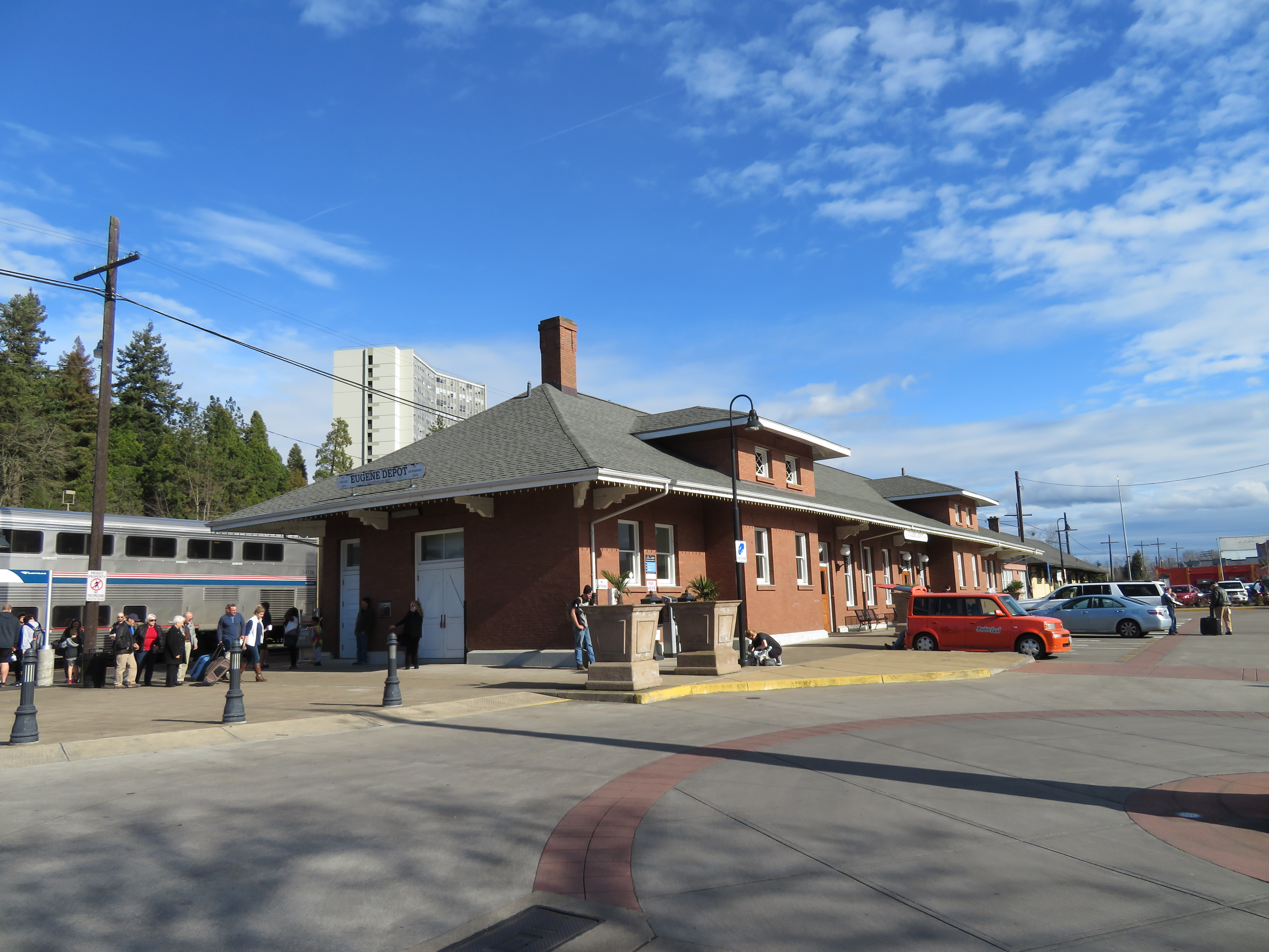 Northbound Coast Starlight and the Eugene-Springfield station in February 2018